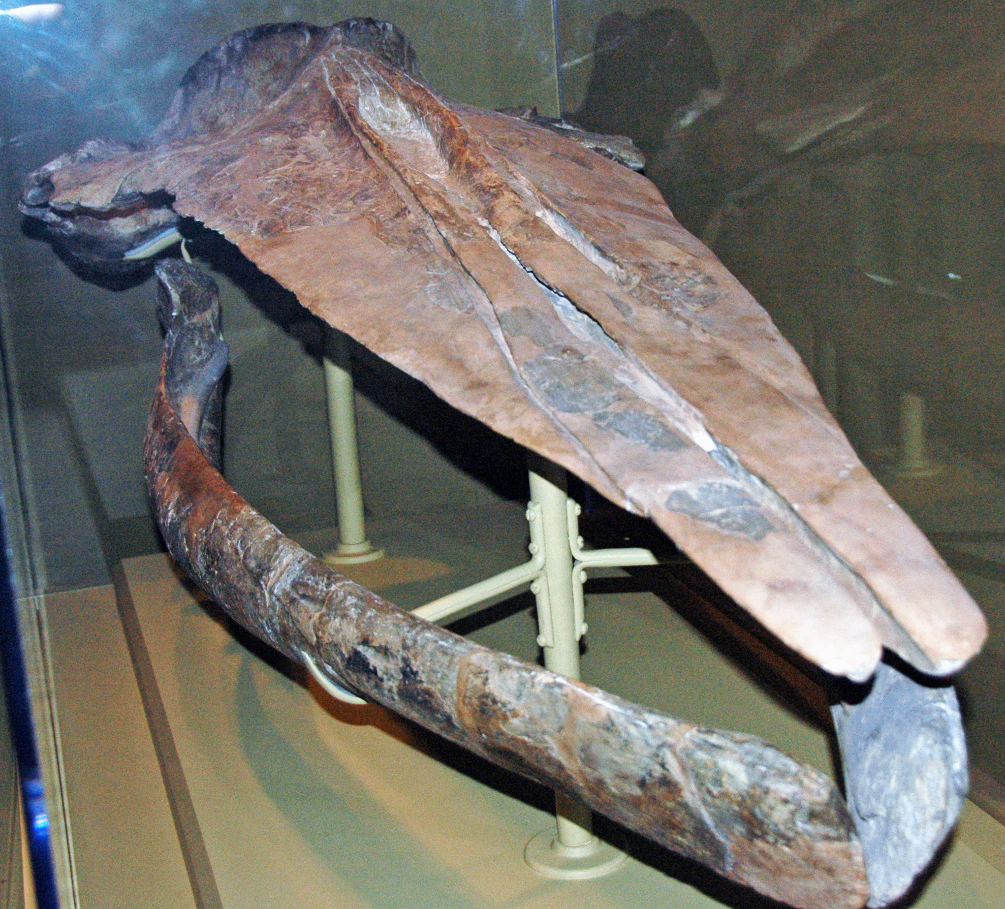 Aglaocetus moreni (Lydekker, 1894) - fossil baleen whale skull attributed to the Oligocene of Argentina. (FMNH P12955, Field Museum of Natural History, Chicago, Illinois, USA) This species is also known as Cetotherium moreni and Cetotheriopsis moreni. From museum signage: "First there were meat eaters, then came plankton feeders. Around 40 million years ago, a new group of whales diverged from the earliest toothed whales: baleen whales. Instead of teeth, these whales have a comb-like screen of tissue called baleen that grows from their upper jaws. Baleen allows whales to filter tiny plankton from the seawater, taking advantage of an abundant food source. All whales today can be divided into two groups, baleen whales and toothed whales. [referring to skull shown above] The skull belonged to an early baleen whale. " Classification: Animalia, Chordata, Vertebrata, Mammalia, Artiodactyla, Cetacea, Mysticeti, Aglaocetidae See info. at: and